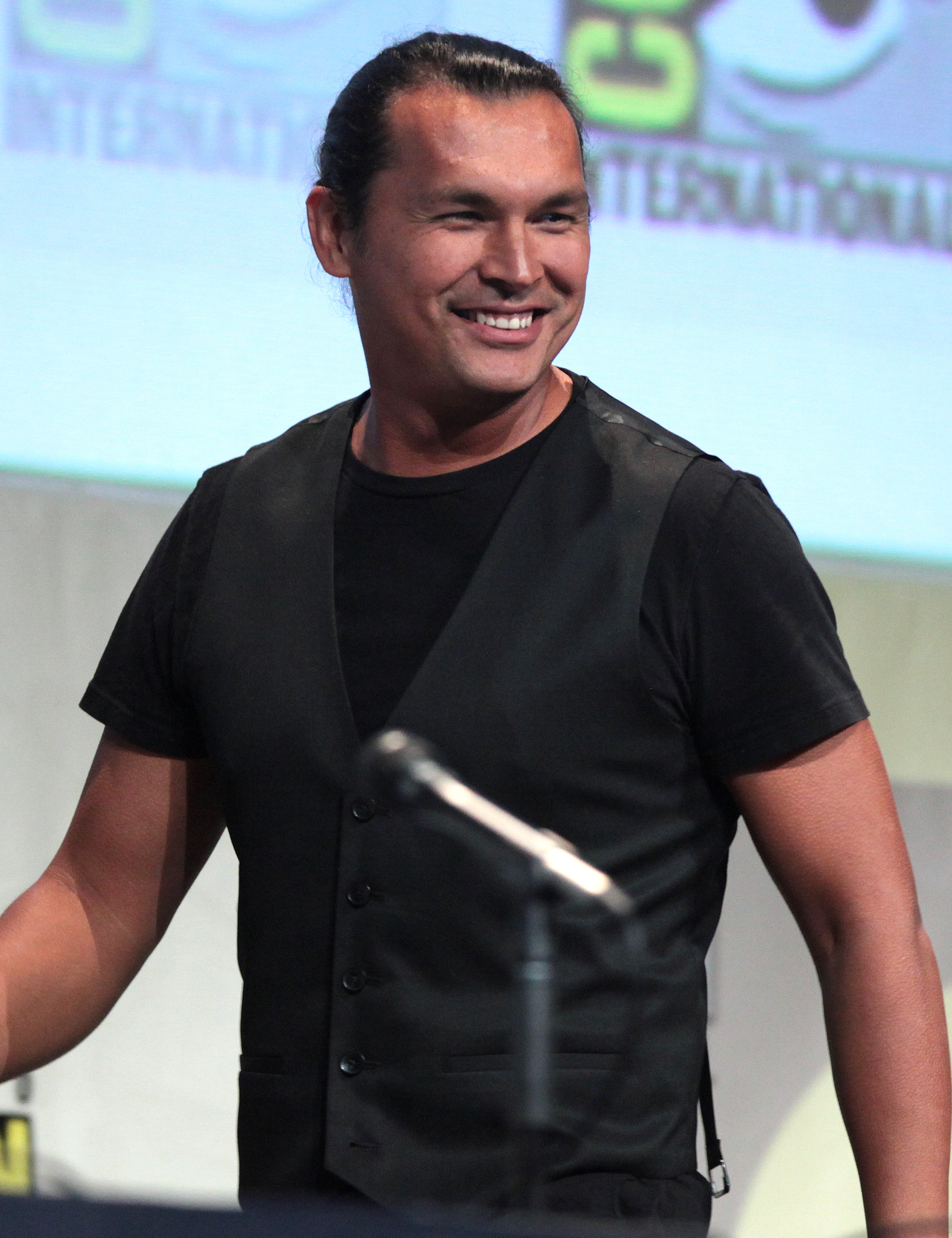 Adam Beach at the 2015 San Diego Comic Con International in San Diego, California.